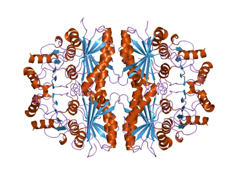 Cartoon representation of the molecular structure of protein registered with 1dbz code.